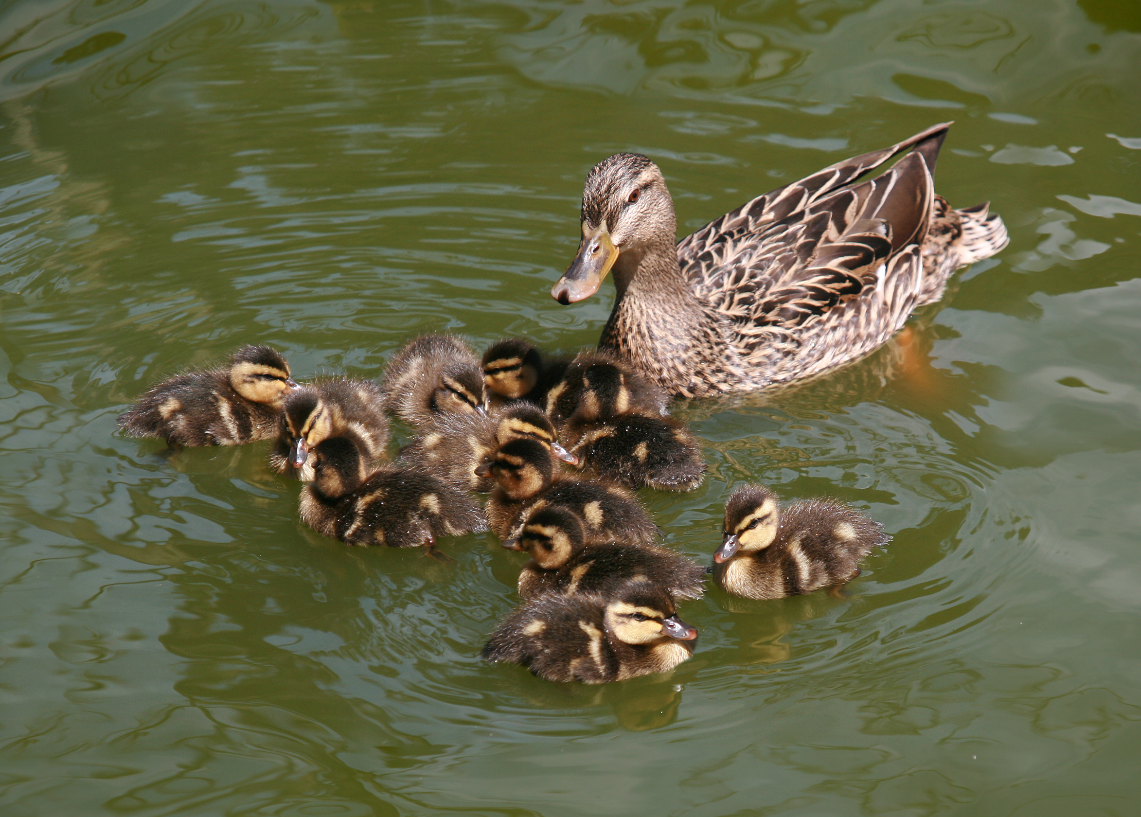 Female Mallard (Anas platyrhynchos) with ducklings